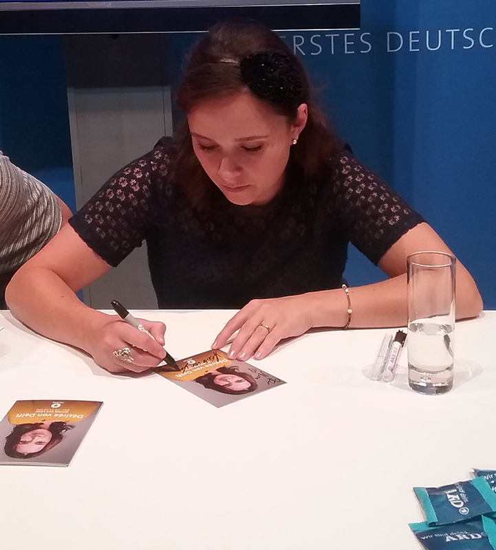 Désirée von Delft signs autographs at the IFA 2018